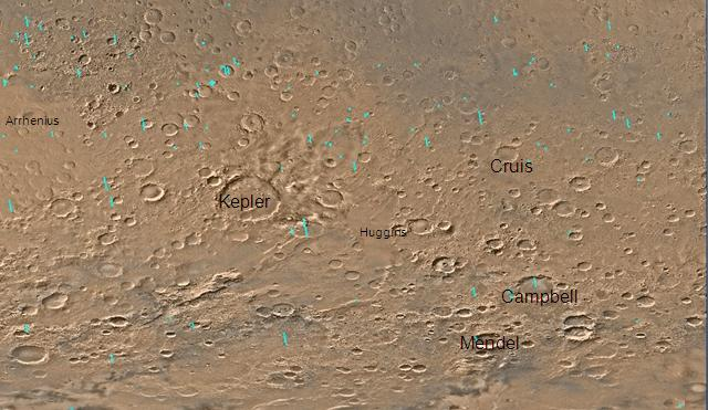 Mars Chart 29: Eridania